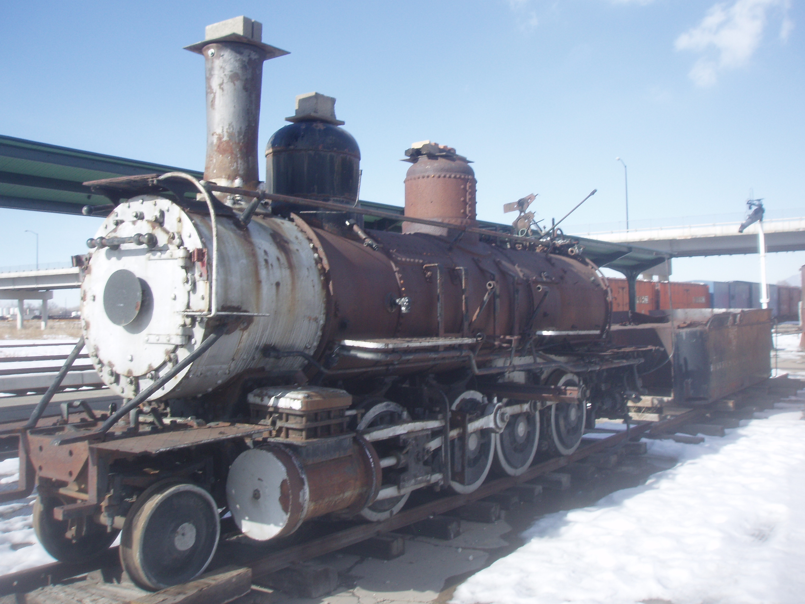 The Denver and Rio Grande Western 223, a narrow gauge steam locomotive listed on the United States National Register of Historic Places. Moved in 1992 from Salt Lake City's Liberty Park to Union Station in Ogden, Utah, it is in the process of restoration from very poor condition.